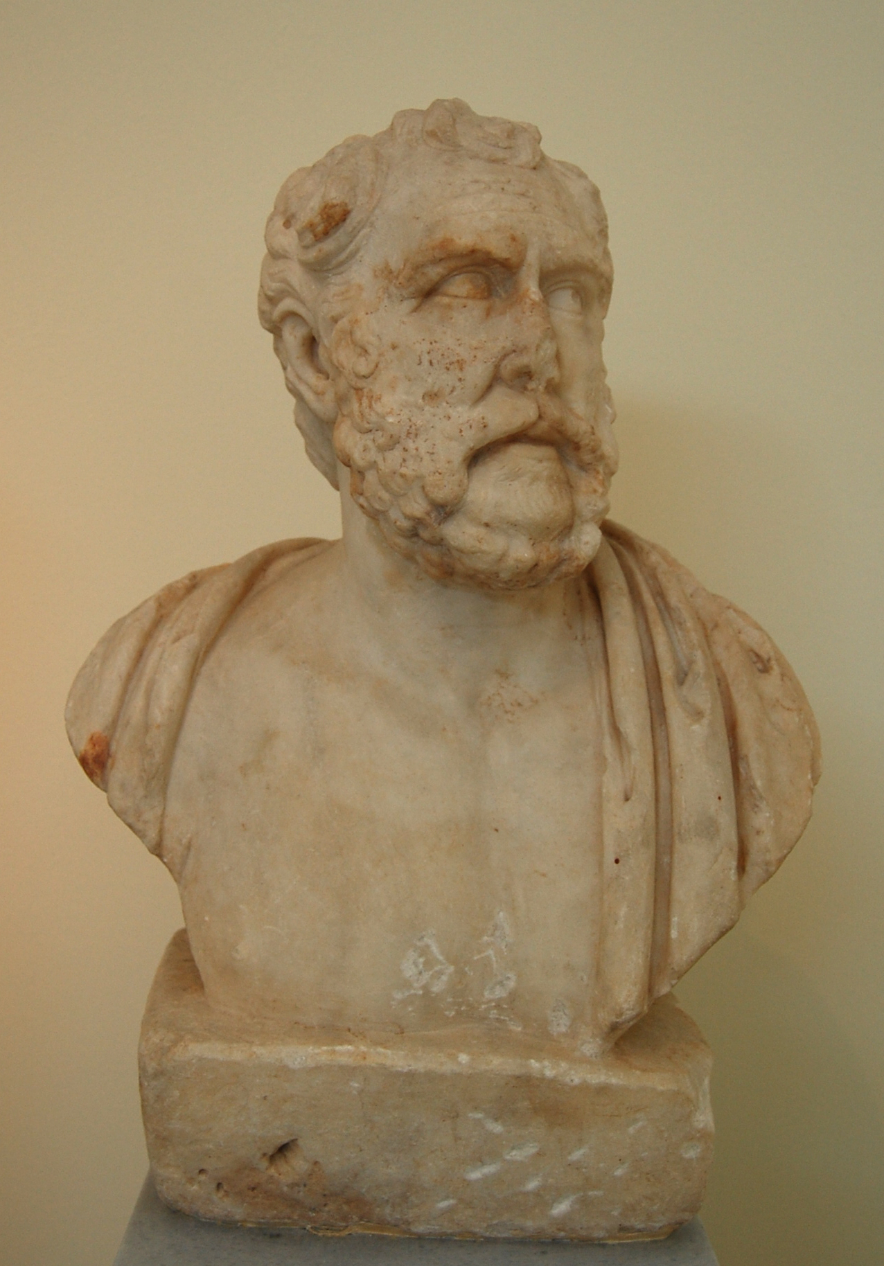 Ancient Roman bust of philospher Polemon of Athens, in pentelic marble, found in the Olympieion in Athens, sculpted around 140 AD. National Archaeological Museum in Athens, Room 32, Nr. 427.